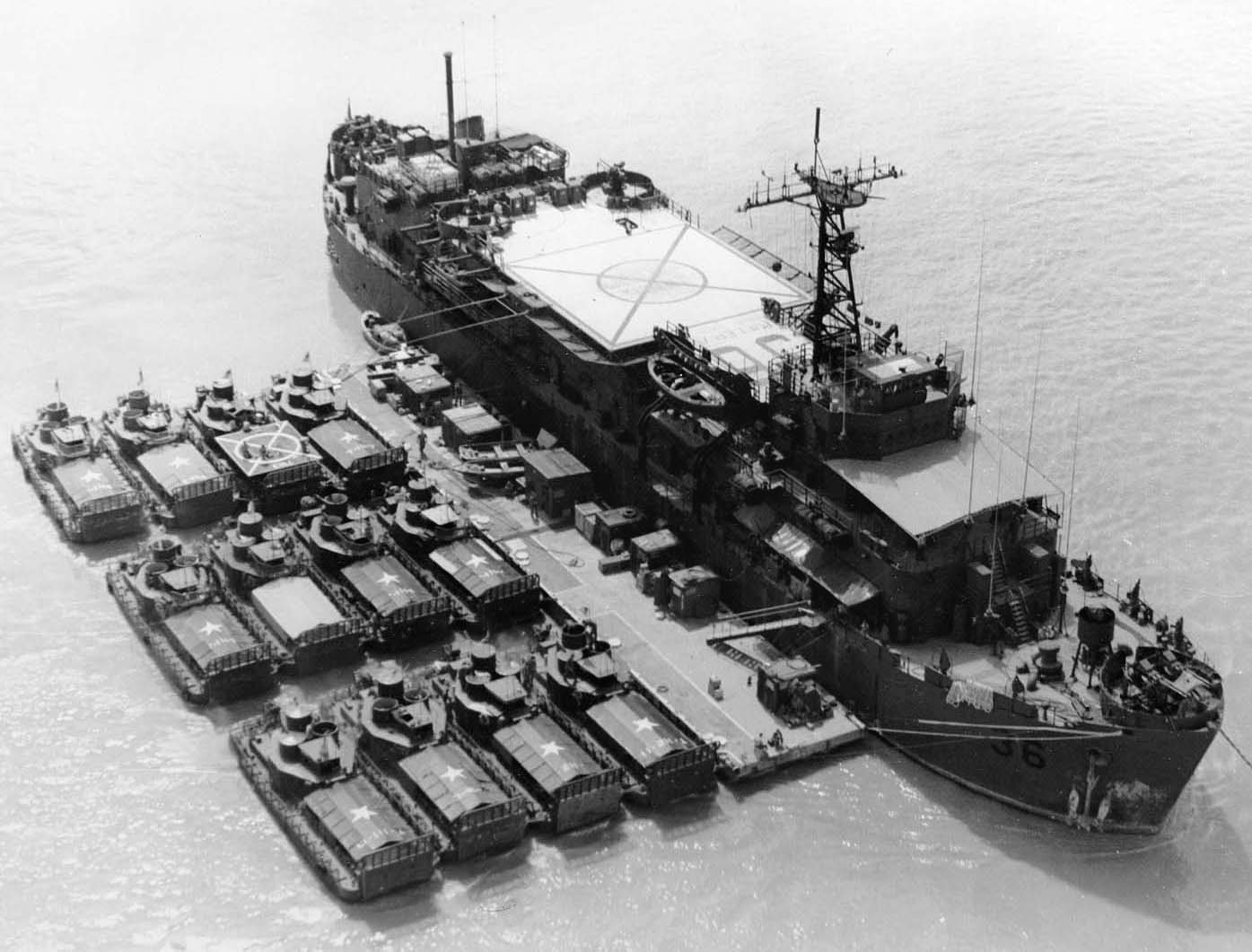 The U.S. Navy barracks ship USS Colleton (APB-36) with twelve Armoured Troop Carriers in Vietnam, circa 1968. After extensive conversion beginning in the Summer of 1966, which included a helicopter landing pad, she was commissioned 28 January 1967 at the Philadelphia Navy Yard, Pennsylvania (USA). Colleton arrived in Vung Tau, Vietnam on 2 May 1967 for duties in the Mekong Delta under Commander River Assault Flotilla One (TF117). It was determined that the MRF needed a larger medical treatment and patient holding capacity and as a result, the Colleton was refitted at U.S. Naval Base Subic Bay, Philippines, in December 1967 and January 1968. Although there were four APB’s assigned to the Mobile Riverine Force of Vietnam, only Colleton was refitted to provide expanded medical treatment and holding capability. The ship was finally decommissioned December 1969 in Bremerton, Washington (USA), and scrapped in 1974.